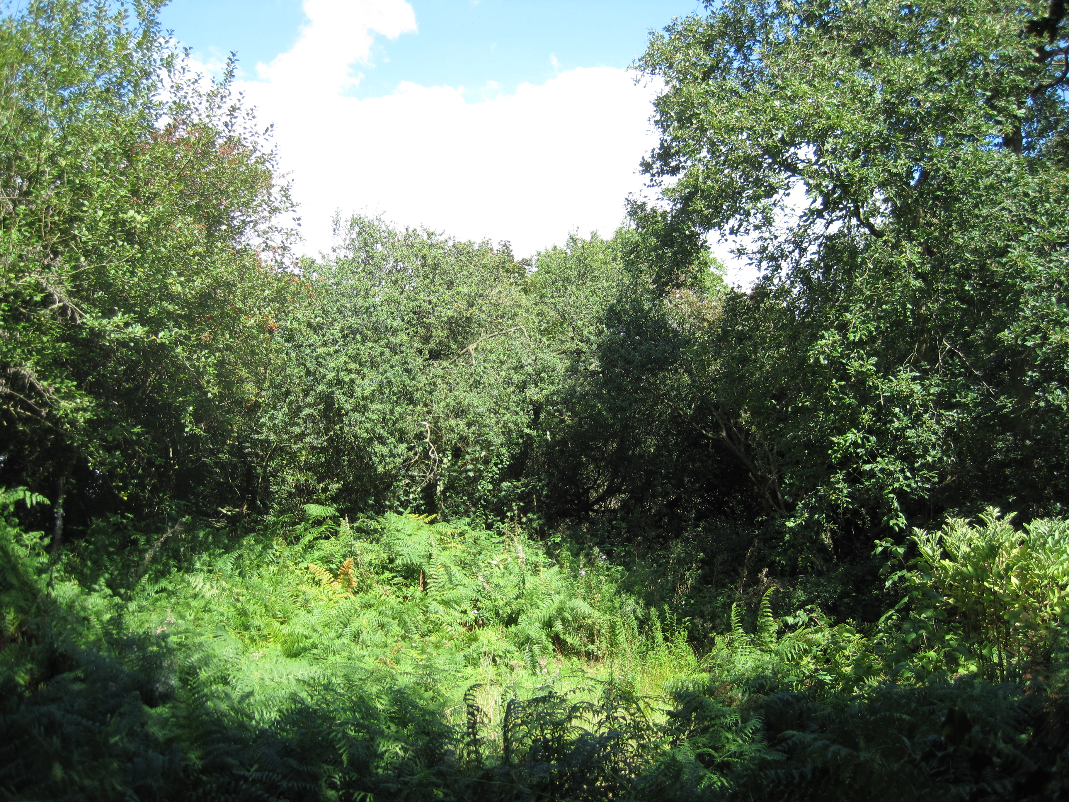 Glebelands nature reserve in Friern Barnet, London